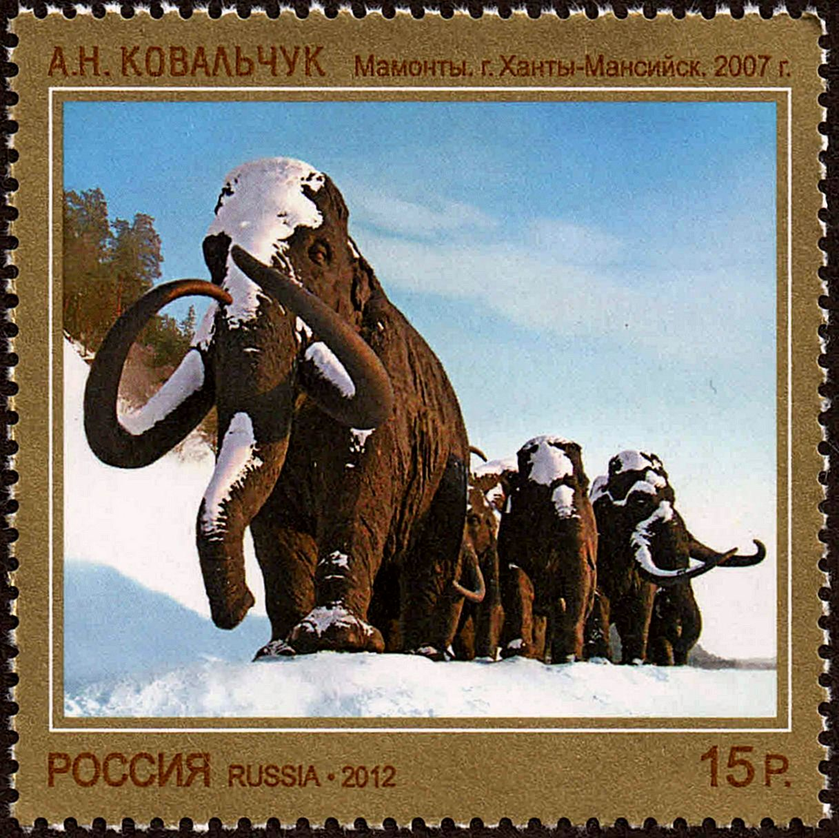 The contemporary art of Russia (the ongoing series, issue II).Mammoths, the sculptural composition by Andrey Kovalchuk. 2007.The sculptural group Mammoths is installed in Khanty-Mansiysk, Russia, it includes 11 (7 at the moment of unveiling) bronze figures from 8 to 3 meters in height.The stamp of Russia, 15.00 Rubles, 30 June 2012, PTC Marka Catalogue No 1614, Michel No 1847. Coated paper, varnish coating, bronze paste. Offset printing. Perforation: comb 11¼. Size of the stamp: 50×50 mm. Print run: 240,000.